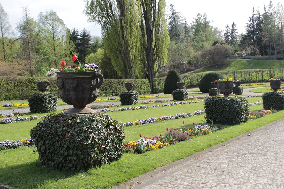 Berlin Botanic Garden